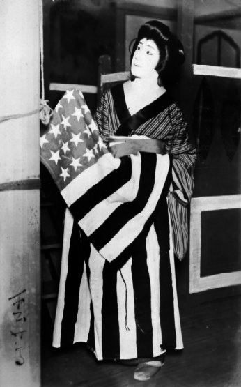 Shōchō Ichikawa II (1886–1940) as the title role in the July–August 1929 Kabuki-za production of Tōjin Okichi